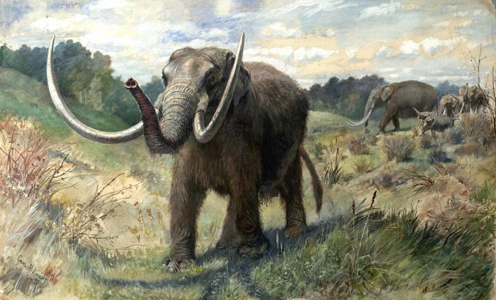 Life reconstruction of American Mastodons (Mammut americanum).